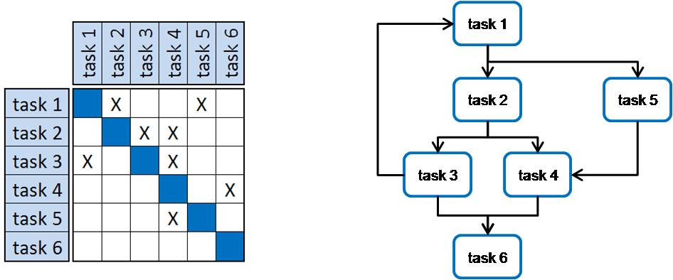 Basic Design Structure Matrix (DSM) as example for process structure with corresponding graph of process